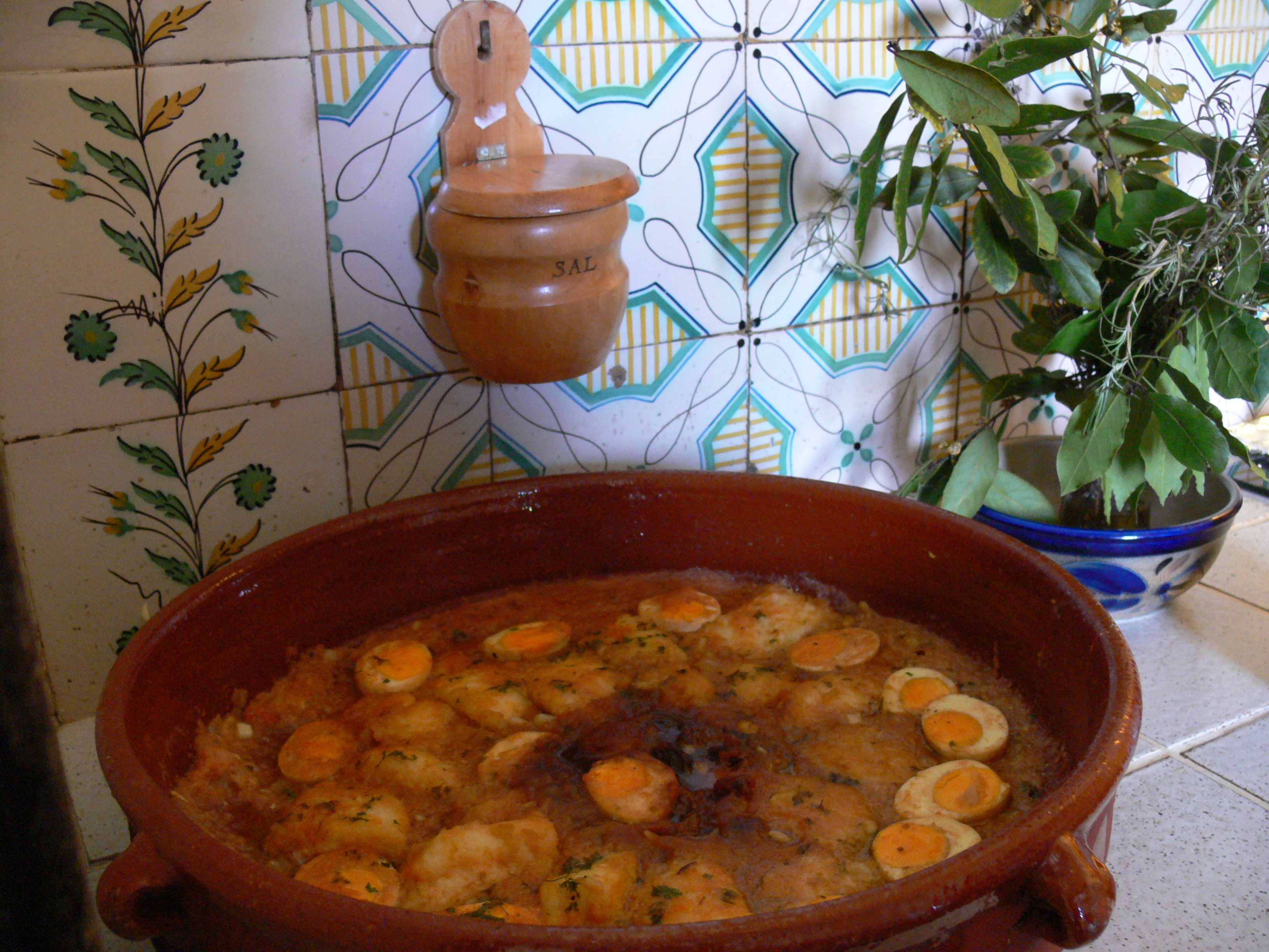 The classical Catalan meal on Good Friday, Olot